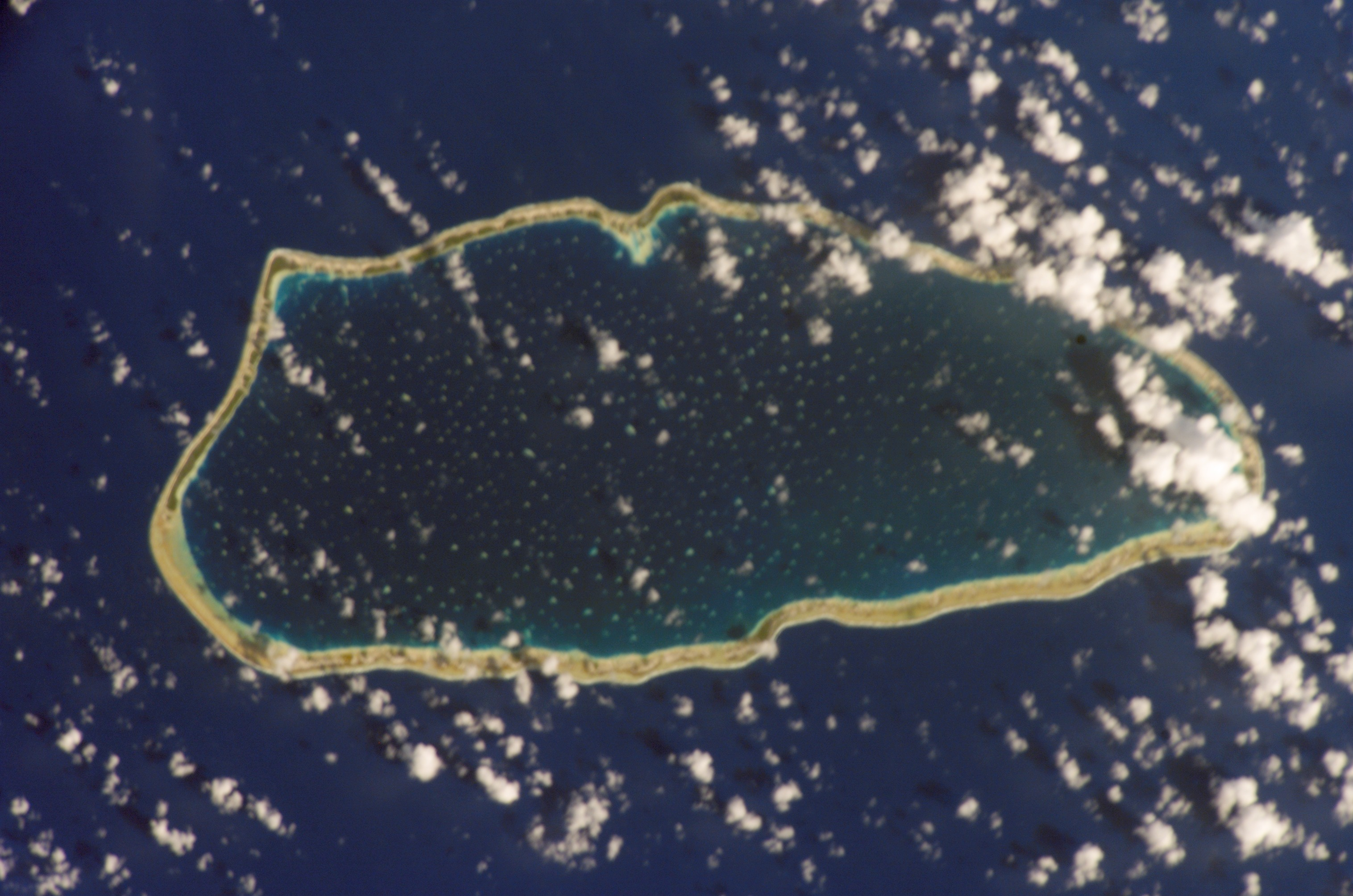 NASA astronaut image of Raroia Atoll (Tuamotu Archipelago, French Polynesia) in the Pacific Ocean